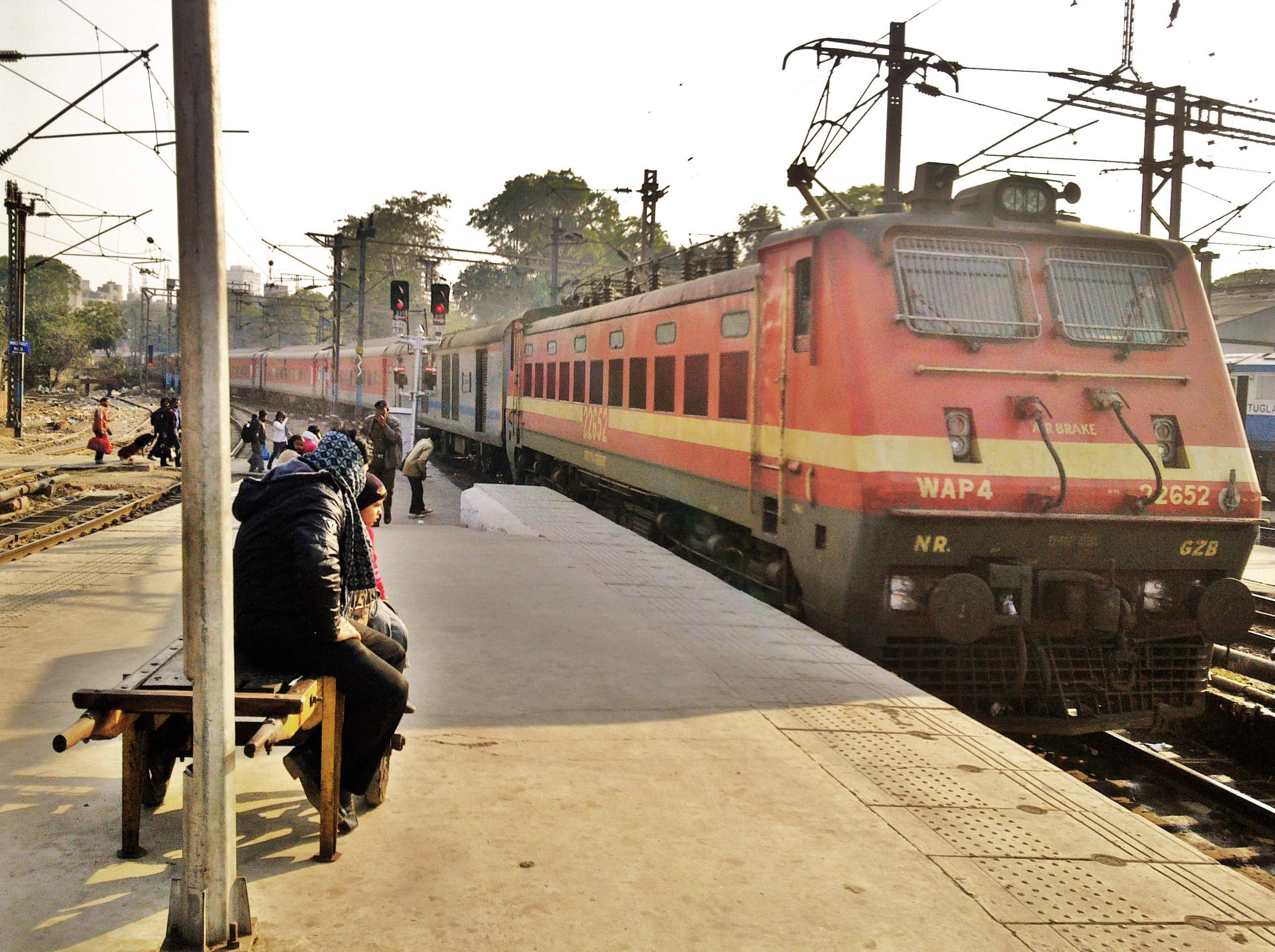 12424 Rajdhani at NDLS